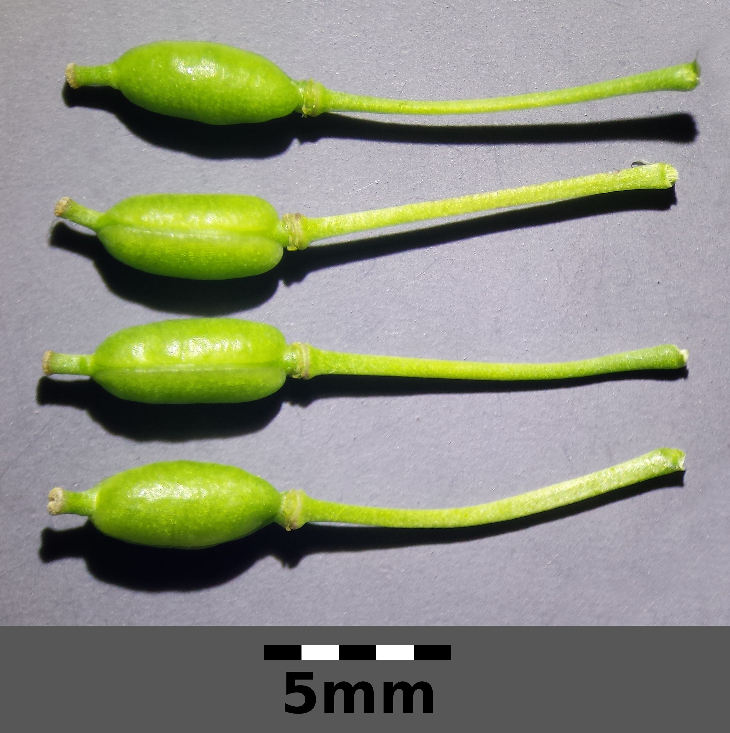 Siliques Taxonym: Rorippa amphibia ss Fischer et al. EfÖLS 2008 ISBN 978-3-85474-187-9 Location: Neue Donau, Vienna-Floridsdorf - ca. 160 m a.s.l. Habitat: water's edge